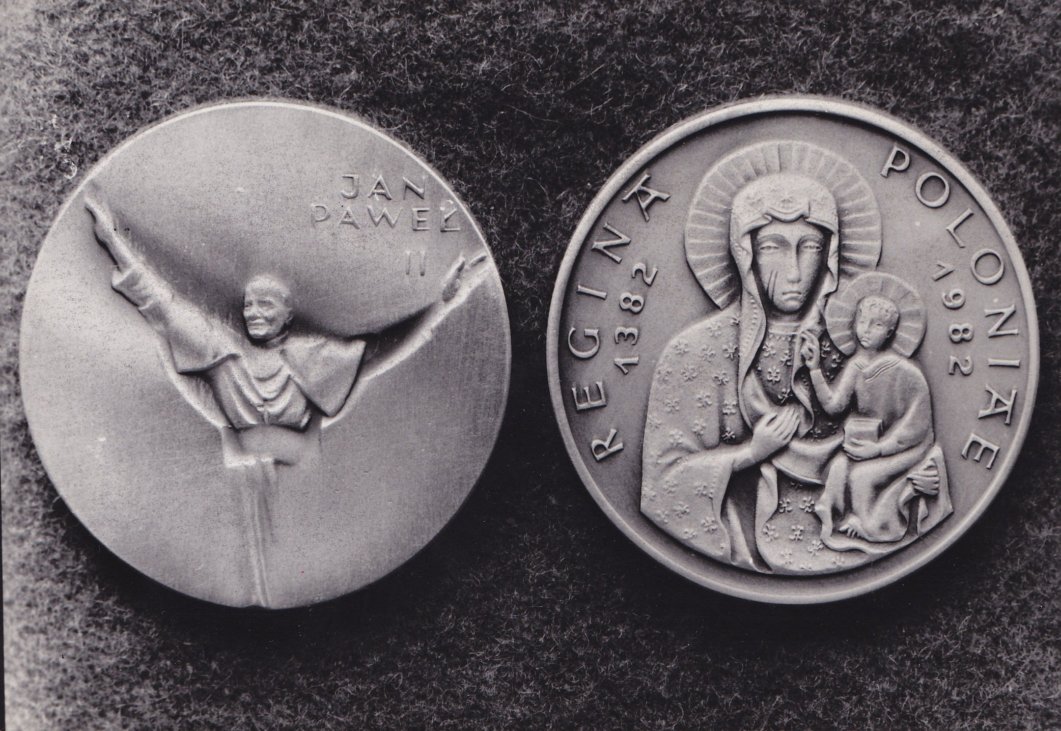 800 years of Czestochowa Mary on Jasna Gora - art medal by Katarzyna Piskorska